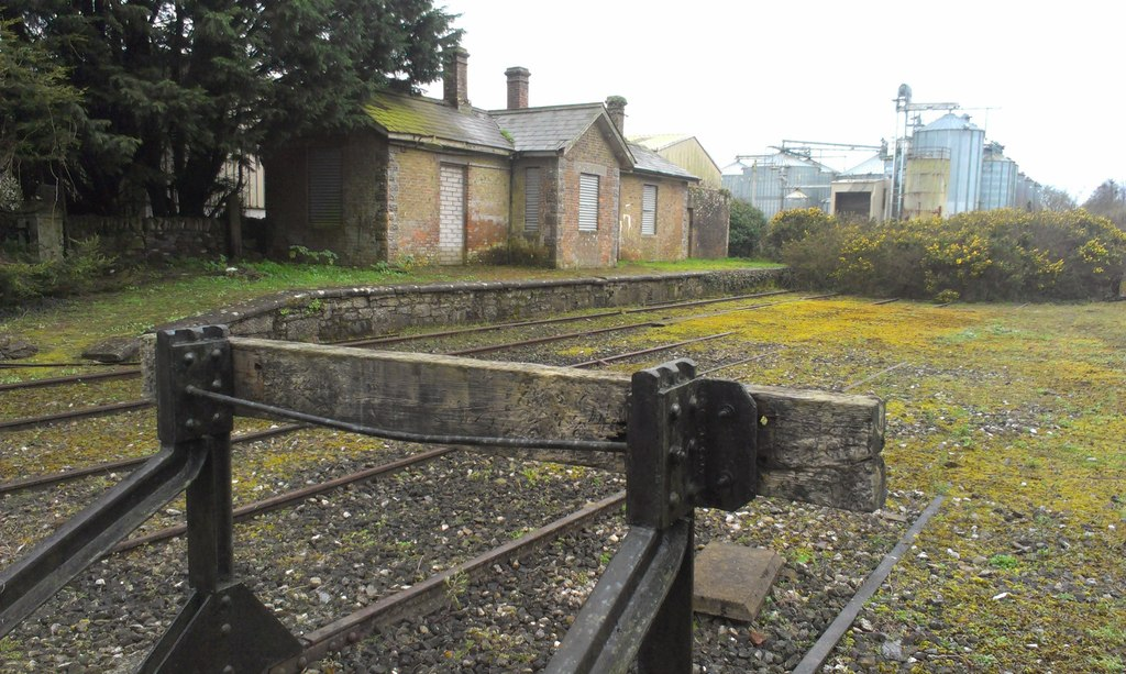 Mogeely Station